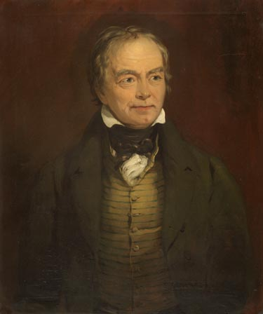 Richard Llwyd, 'Bard of Snowdon' (1752-1835) Potrait of Welsh poet and genealogists, Richard Llwyd, original held by the National Museum of Wales, oil on canvas.